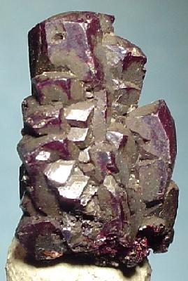 Pyrargyrite Locality: St Andreasberg, St Andreasberg District, Harz Mts, Lower Saxony, Germany (Locality at ) Size: 1.6 x 1.1 x 1.0 cm. A pristine, ruby-silver pyrargyrite tower surrounded by smaller crystals from St. Andreasberg, Germany. An aesthetic thumbnail from the Dean Martalock and Seaman Museum Collections.